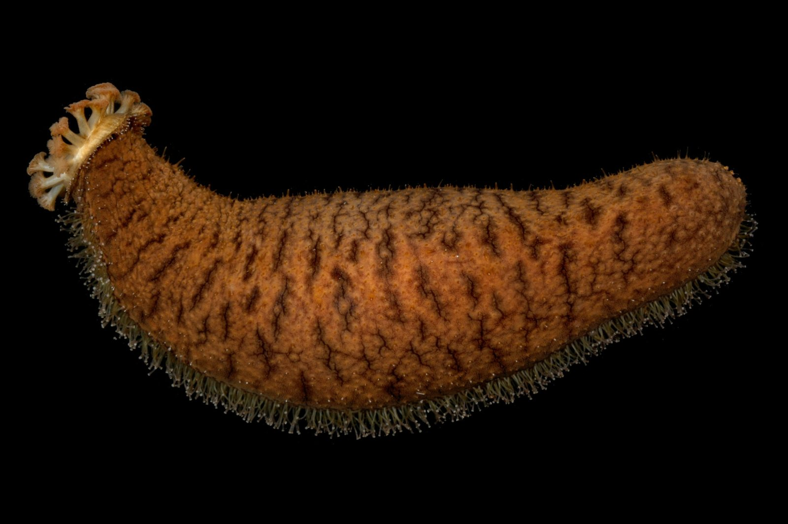 Brown sea cucumber (or "deep-water redfish"), Actinopyga echinites. Specimen found in Kosrae, Federated States of Micronesia.